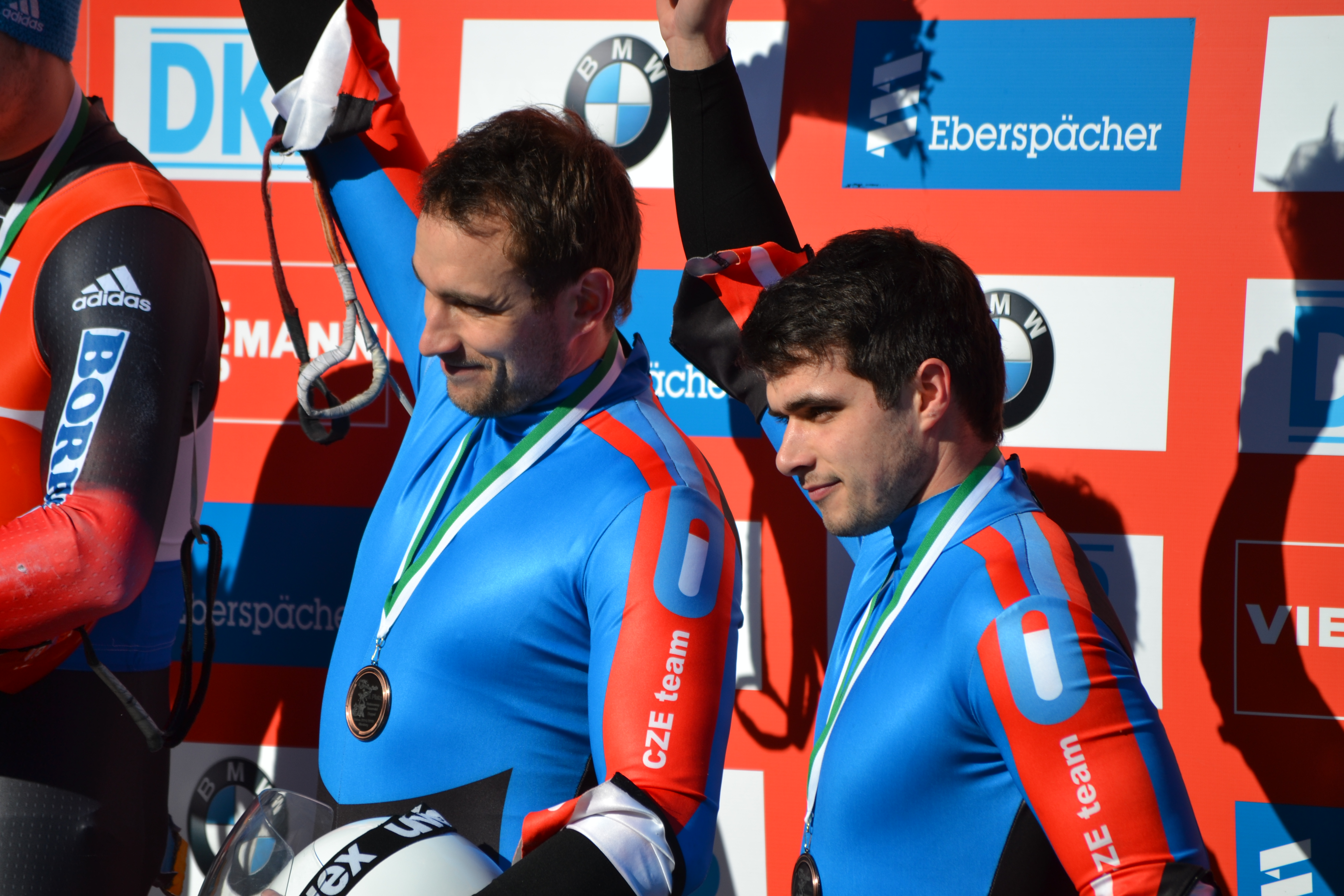 Luge world cup race season 2014/15 in Altenberg/Germany, 19th to 22nd Februar 2015. Day 2: Nations cup races.